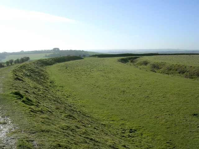 Iron-age earthworks at Figsbury Ring